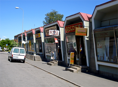 Doktor Bex gata in Guldheden, Göteborg, Sweden